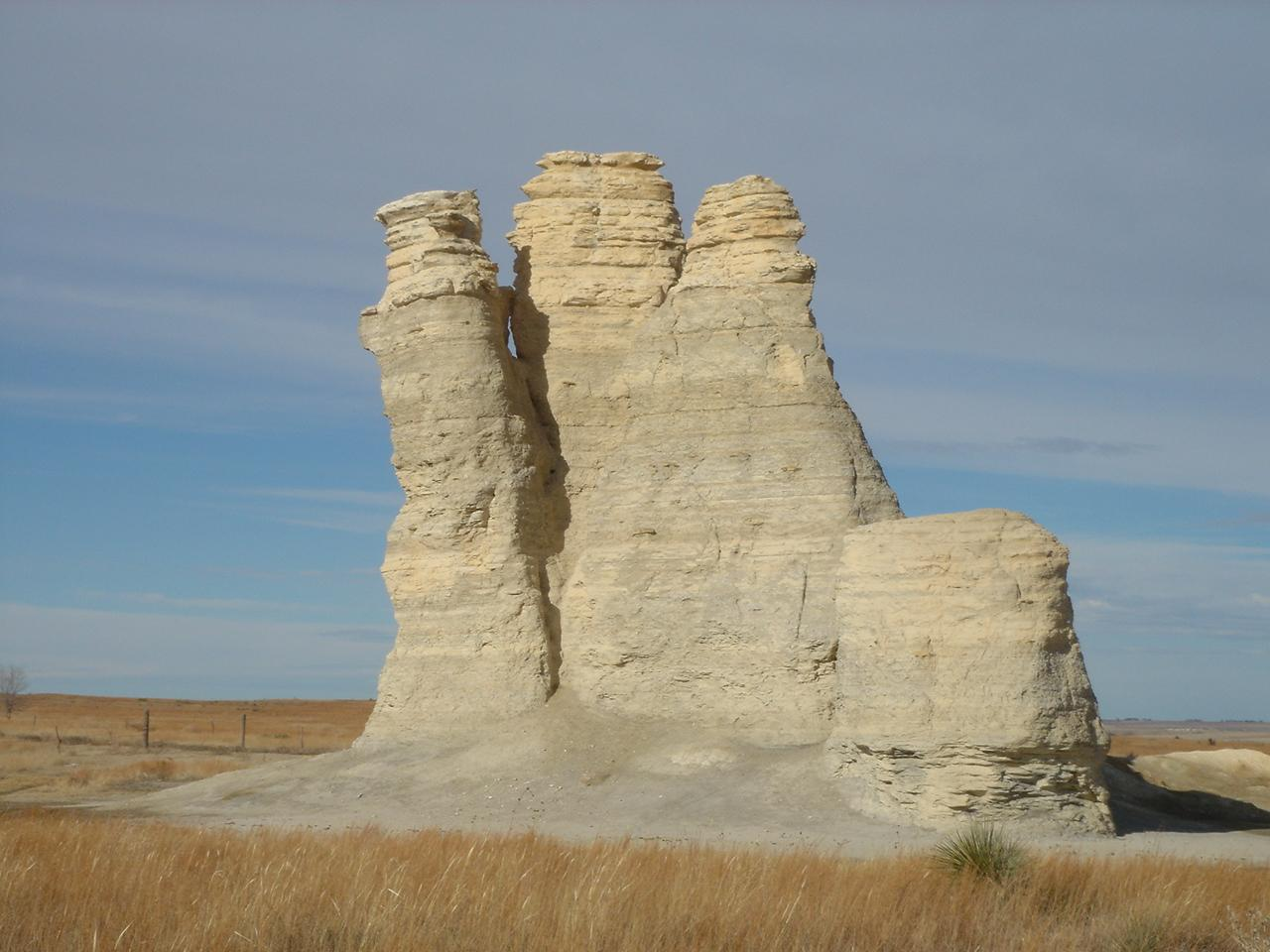 The limestone formation Castle Rock near Quinter, Kansas, seen in December 2005 after its tallest spire was struck down during a thunderstorm.